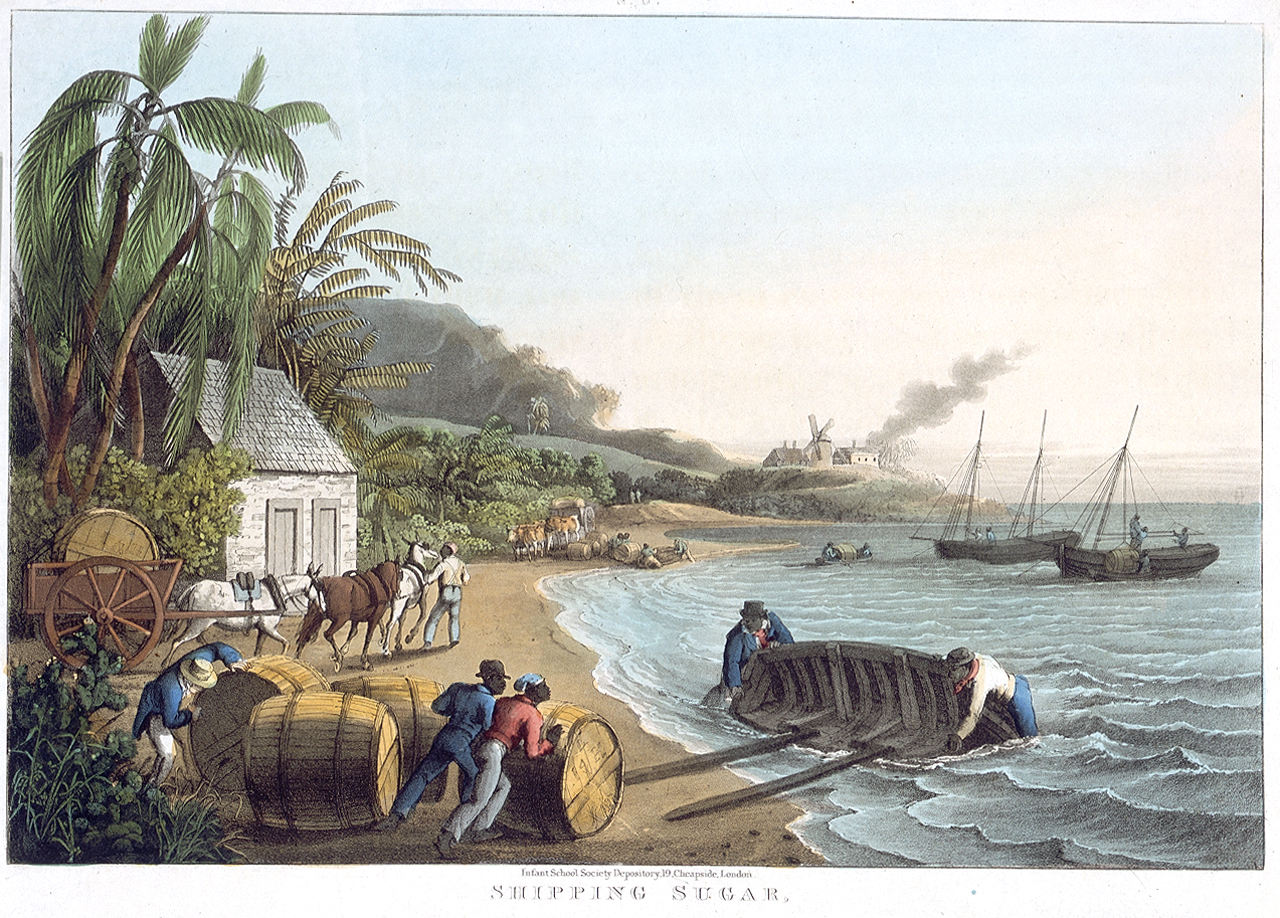 Shipping Sugar; aquatint & etching, coloured; from William Clark’s Ten views in the island of Antigua, in which are represented the process of sugar making, and the employment of the Negroes (Thomas Clay, London, 1823).